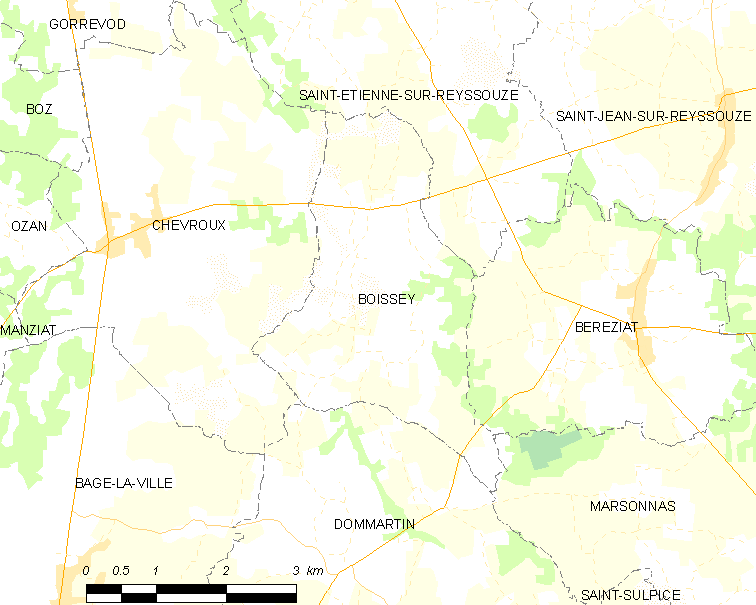 Map of French commune: Boissey Map commune FR insee code 01050.png